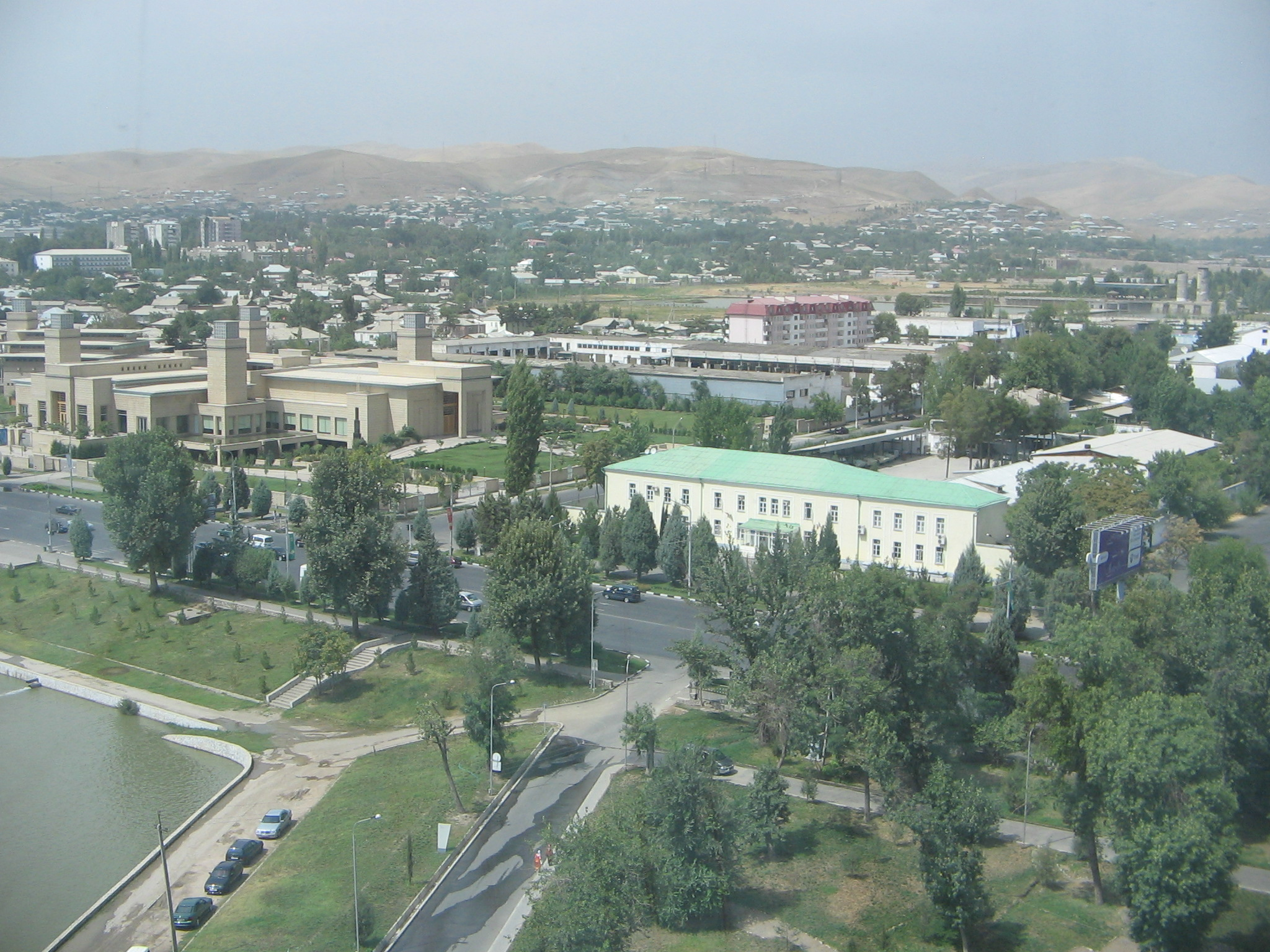 A view of Dushanbe, Tajikistan